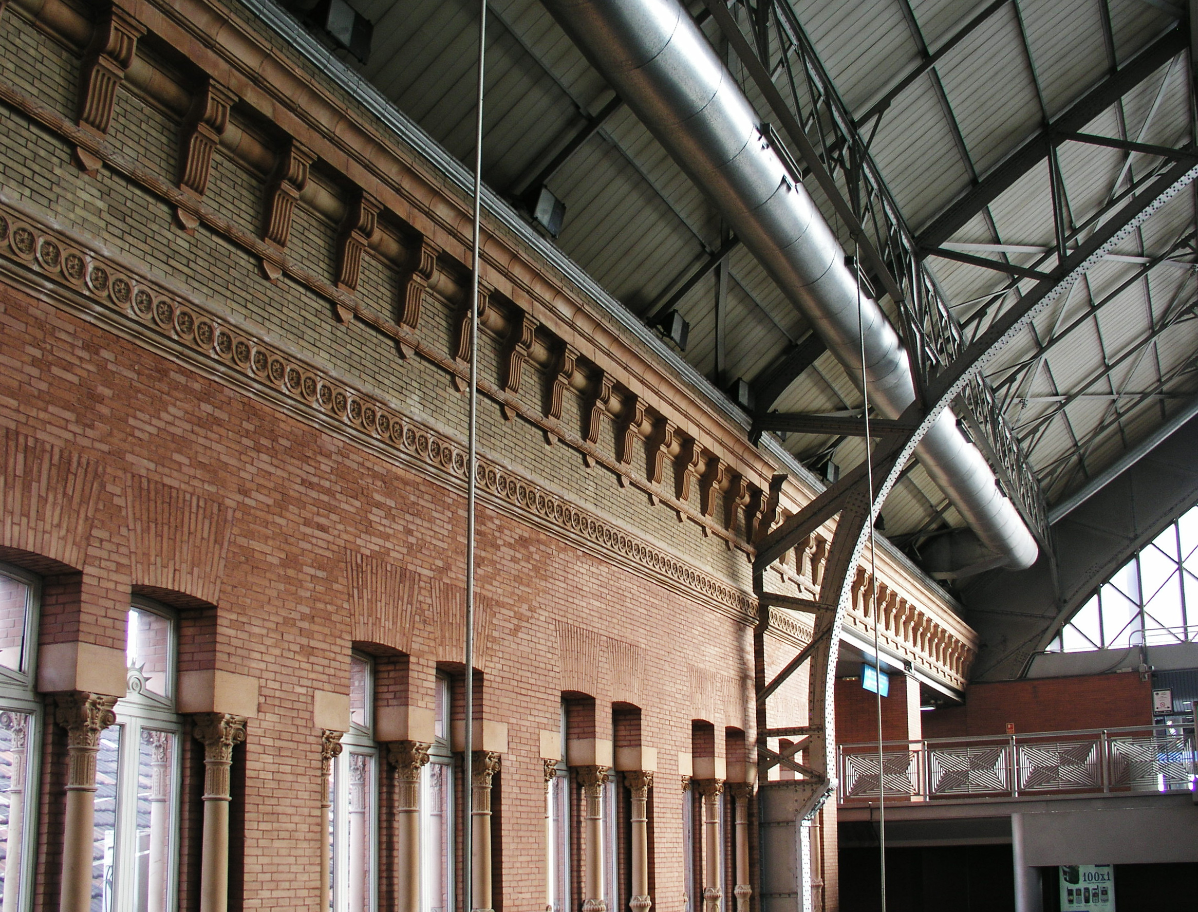 Atocha railway station, brick wall and roof, Spain.